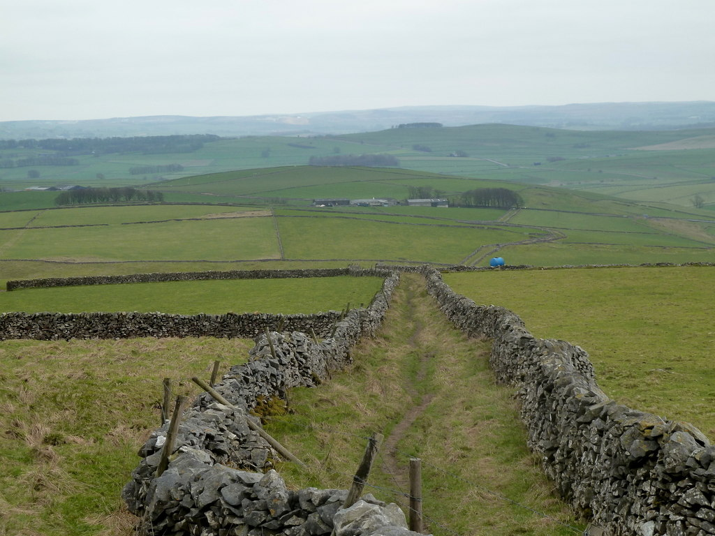 Limestone Way heads downhill